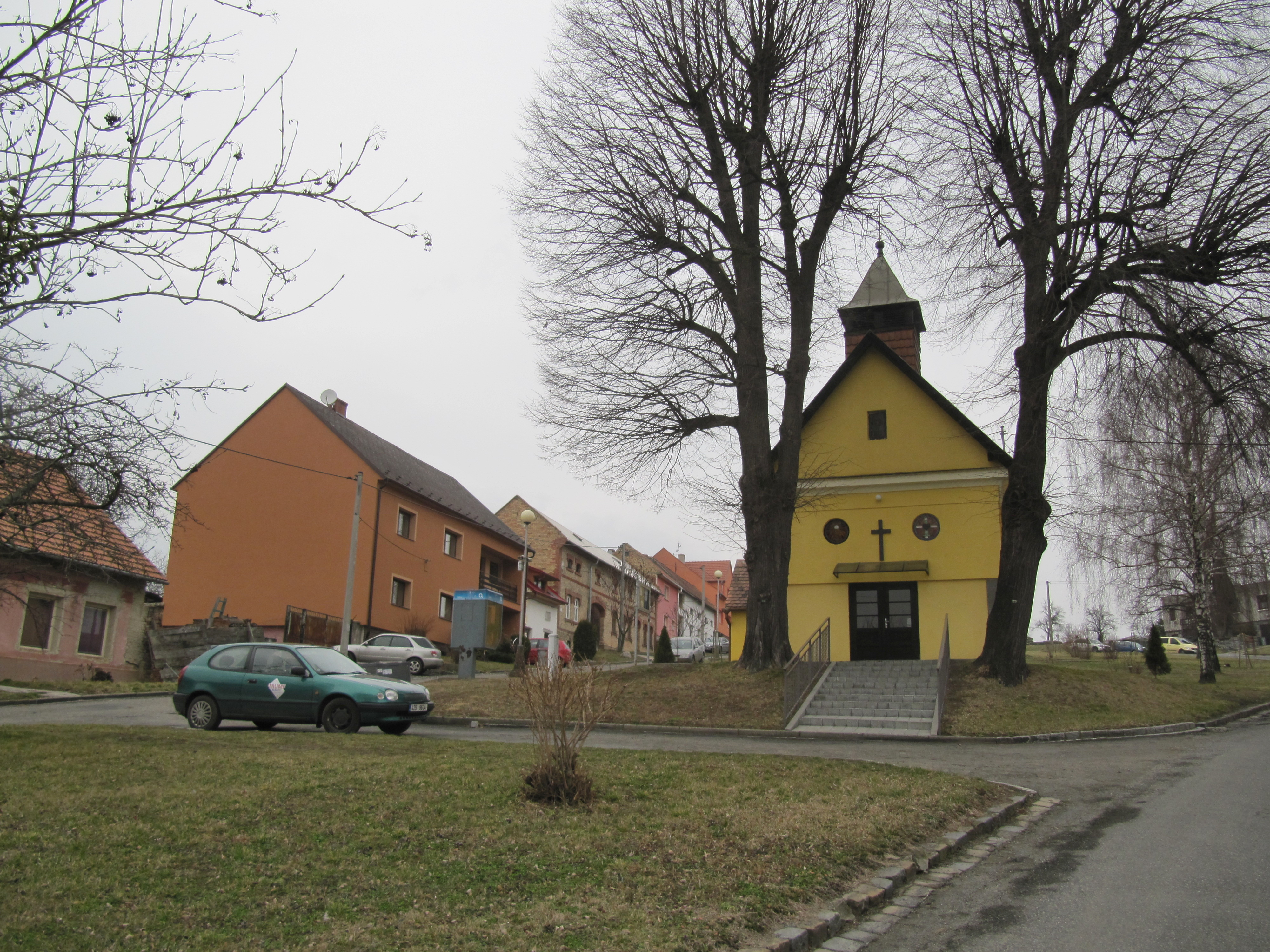 Soběsuky, Kroměříž District, Czech Republic, part Milovice.